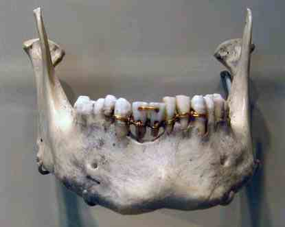 This image is from The National Museum of Dentistry in Baltimore. The “treatment” in the mandible shown here was done at the turn of the 20th century by Dr. Vincenzo Guerini, who wrote A History of Dentistry and who made models of ancient dentistry examples he supposedly saw in his travels. This example is only 115 years old, not 2000 years old, and definitely not Egyptian. Whether Dr. Guerini actually saw an Egyptian mummy with this sort of dental appliance is still unknown, as such a mummy does not currently exist.